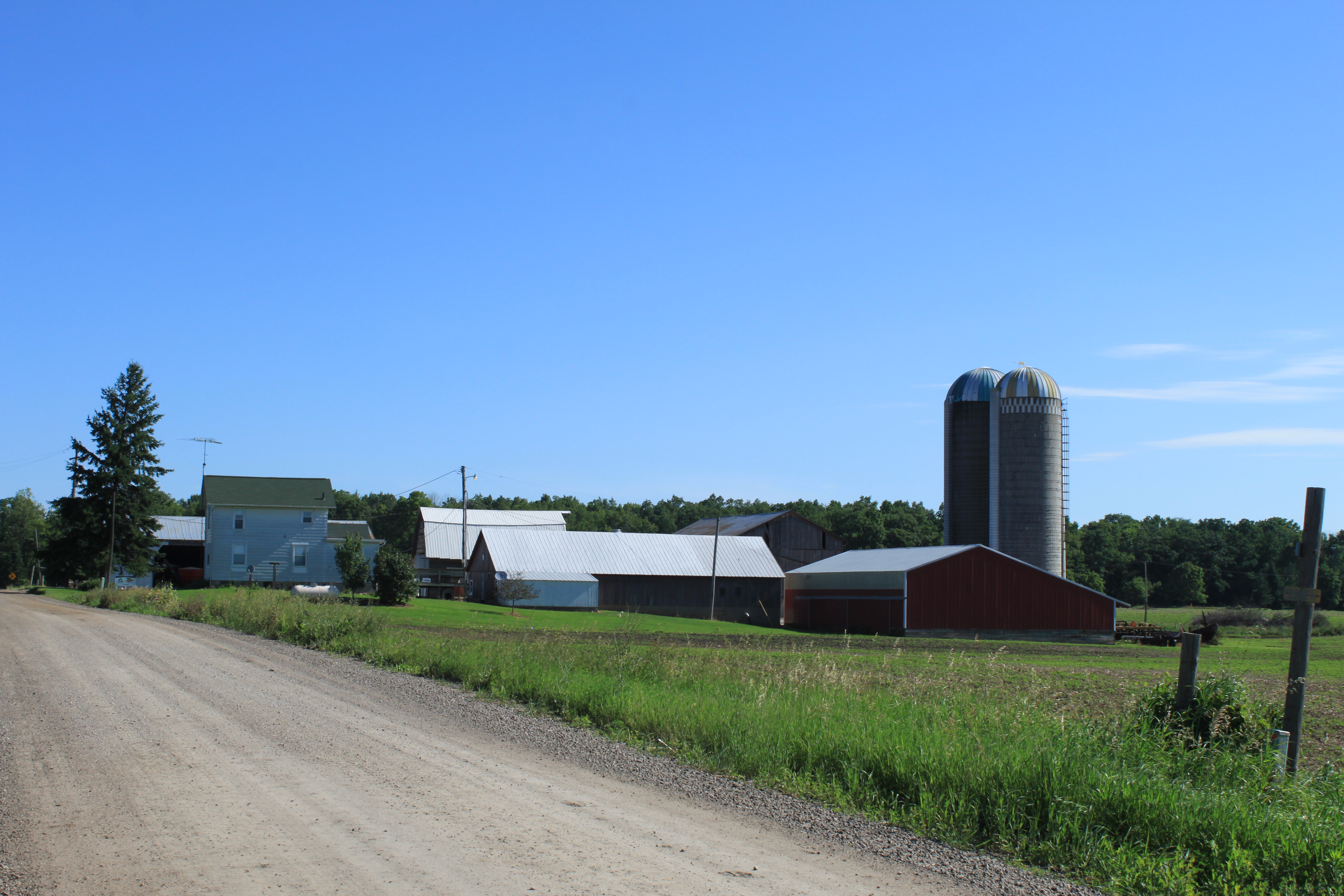 Farm on Marion Road, Saline Township, Michigan